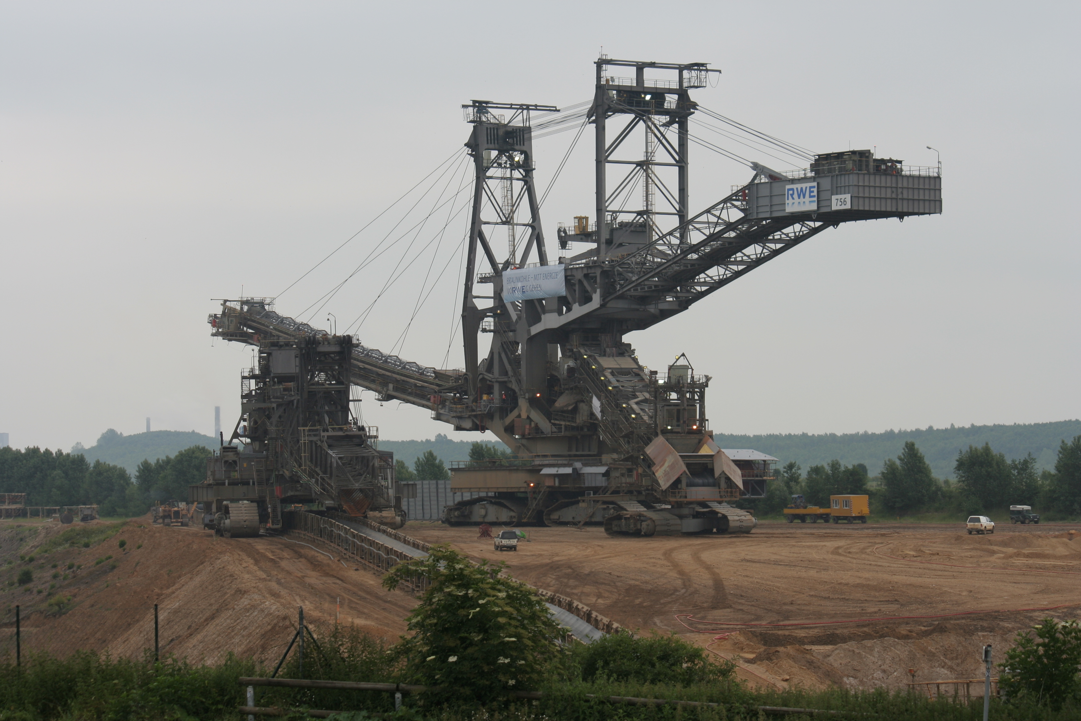 The stacker 756 of RWE Power AG during recultivation works of a belt conveyor system near Bergheim-Glesch. The stacker performed the work in 2009 for a few weeks during its transfer from the Bergeim mine to the Hambach mine.